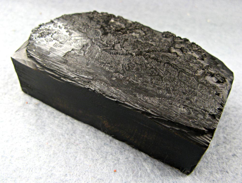 An original engraved wood block by Thomas Bewick (1753–1828).